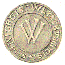 The medieval seal of the town of Ulvila (Swedish Ulfsby) in Finland. Used in 1419. The text reads "S':CIVITATIS:WLPS:BYCENSIS".